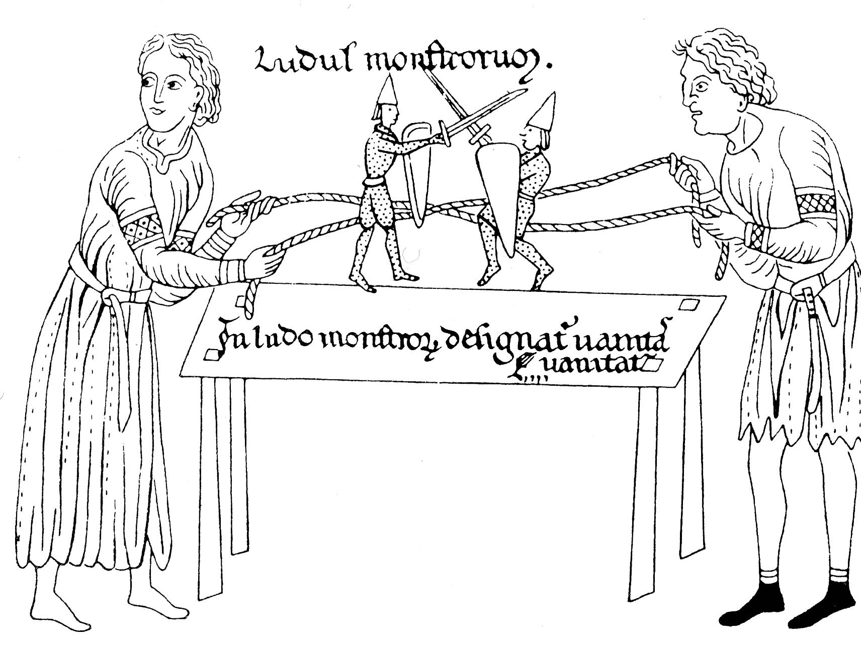 Primitive puppetry in a miniature from Hortus deliciarum .